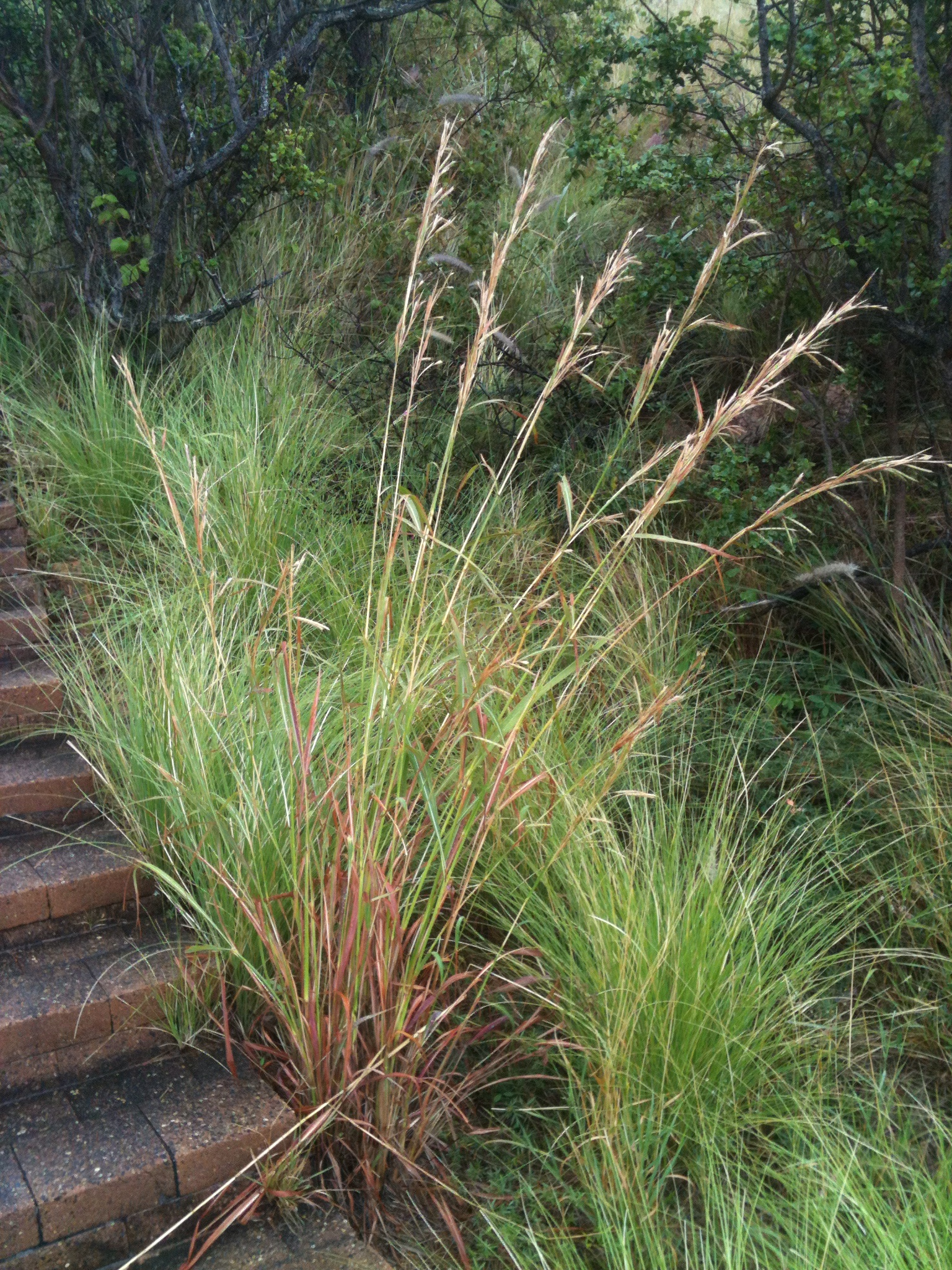 Gamba grass (Andropogon gayanus), Townsville, Queensland, Australia